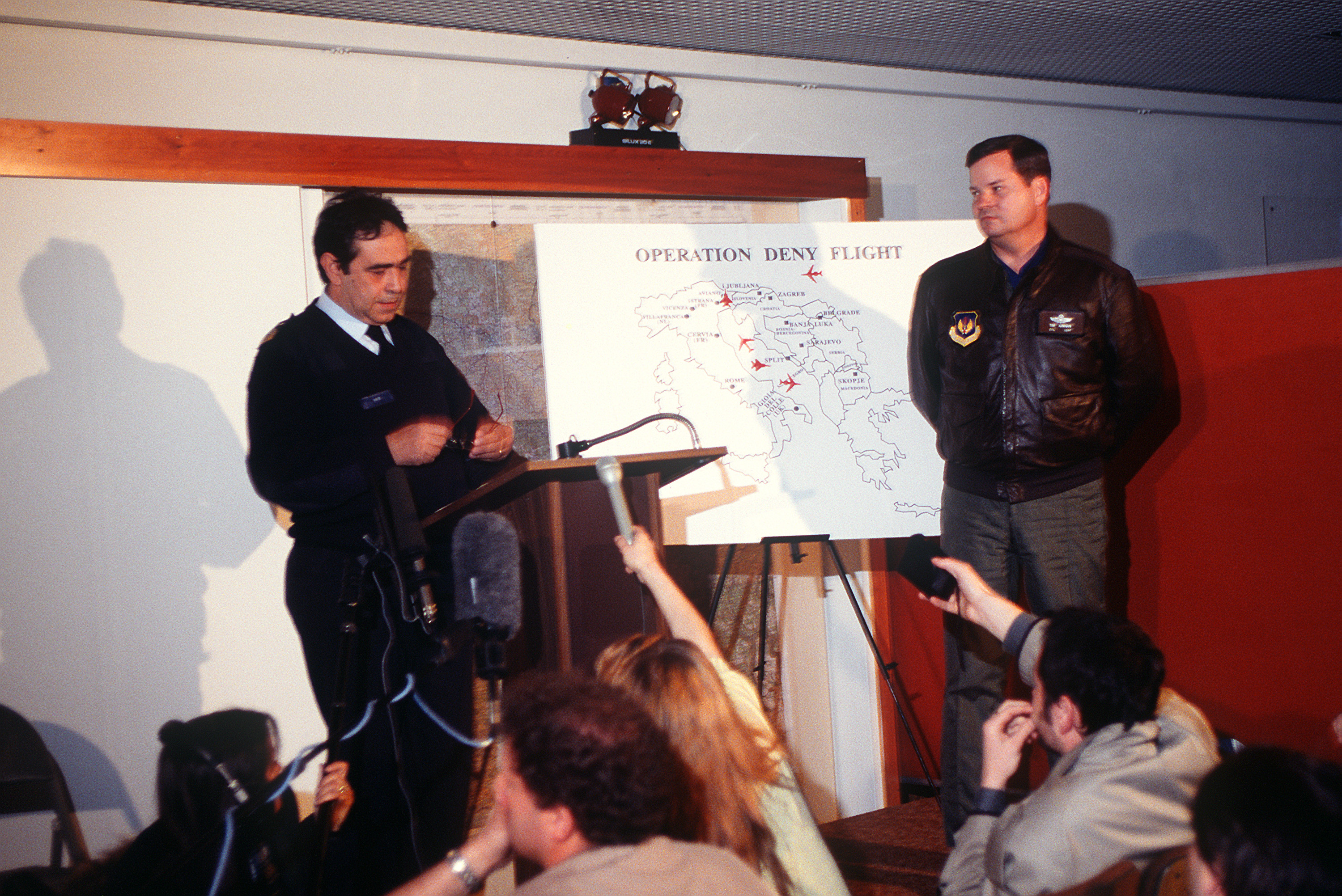 A pilot answers questions during the first press conference after the initial missions of Operation Deny Flight, the enforcement of the United Nations-sanctioned no-fly zone over Bosnia and Herzegovina. Col. T. Kinnan, commander of the 401st Fighter Wing, is conducting the briefing.